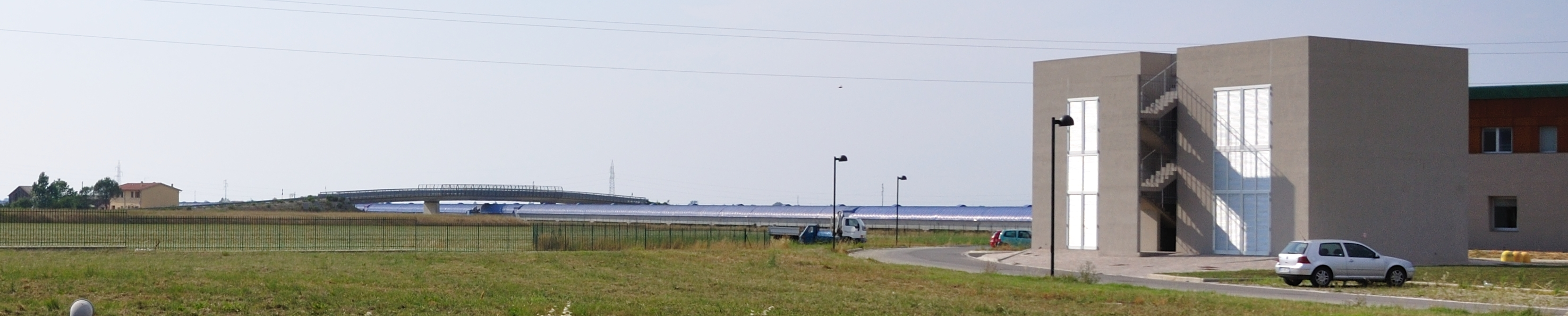 VIRGO - view of west tube from the gates of complex